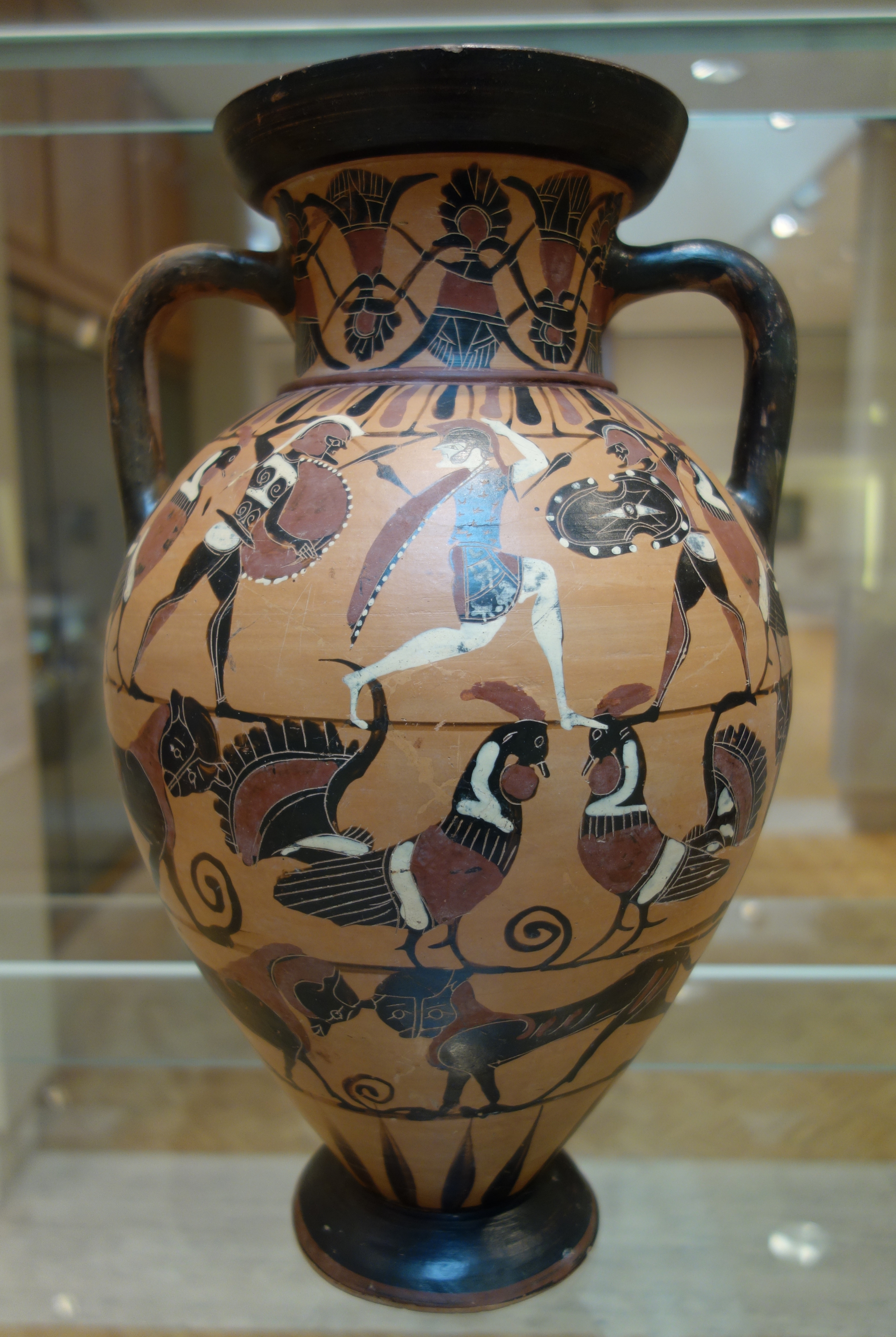 Exhibit in the Chazen Museum of Art, University of Wisconsin-Madison, Madison, Wisconsin, USA. This artwork is old enough so that it is in the public domain.